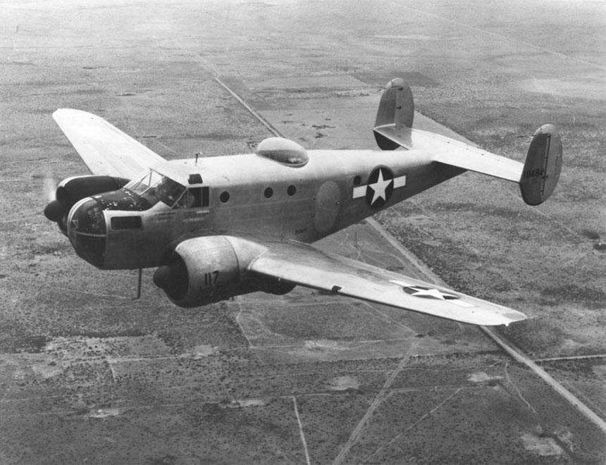 Description: The pilot heads his bombing training plane (Beechcraft AT-11), out over the vast West Texas prairies to its target as the bombardier student and instructor ready the bomb sight in the nose of the plane for the early morning mission.